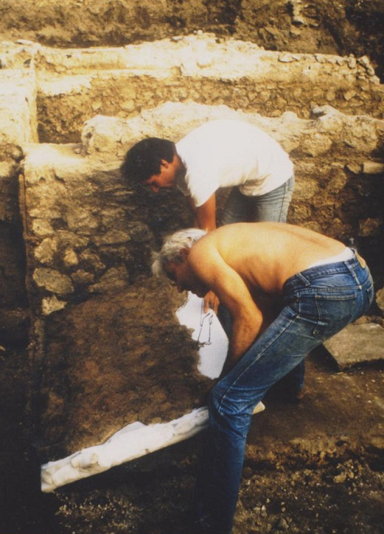 Yves Morvan mural painting